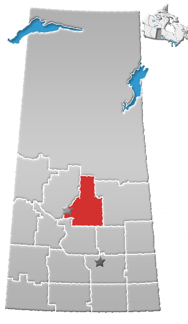 Saskatchewan census area No. 15